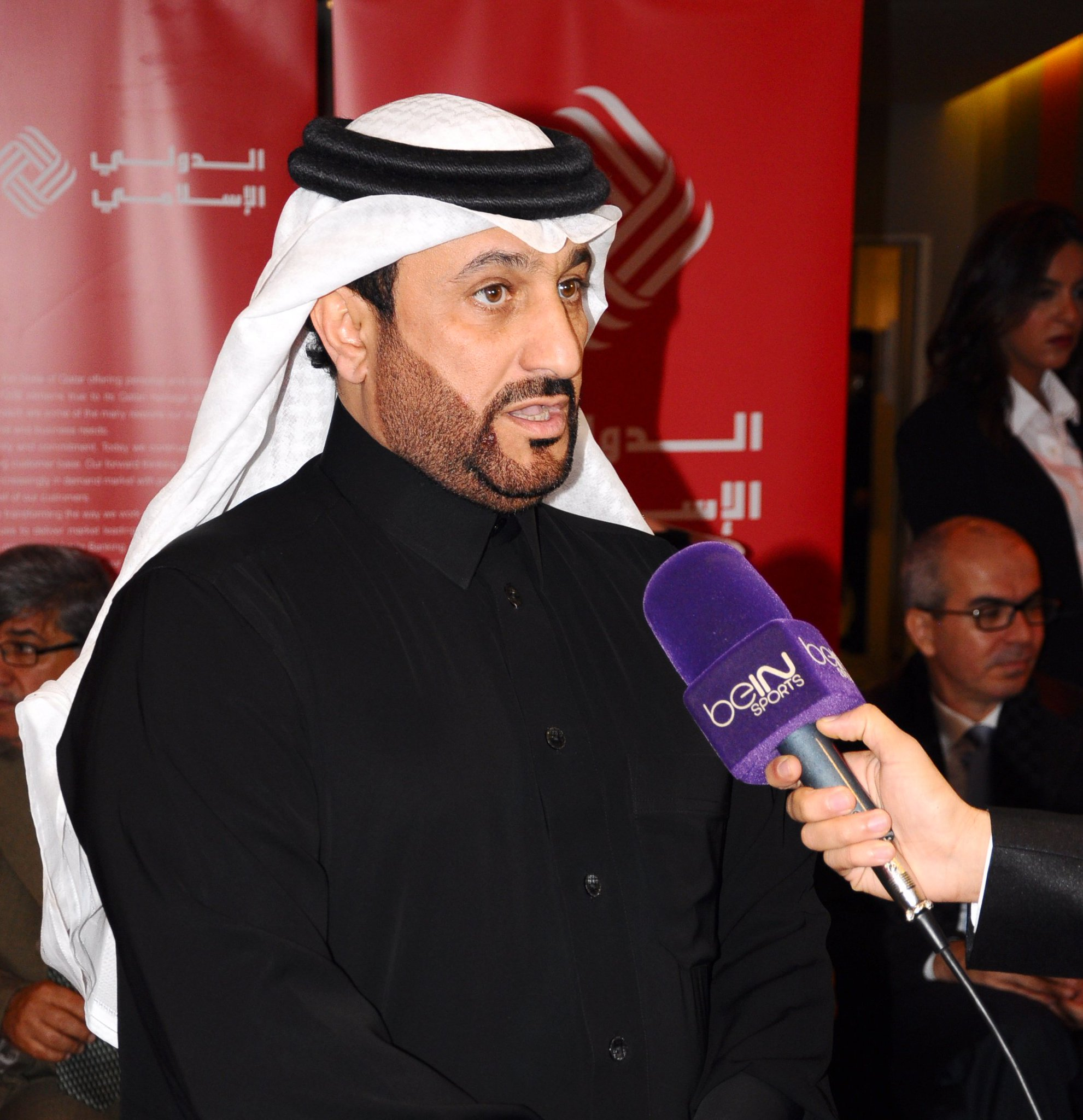 لقاء صحفي لسعادة الشيخ أحمد العبيكان مع قناة بي ان سبورت @beINSPORTS أتناء حفل جائزة أفضل العرب 2016